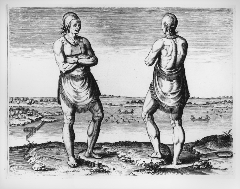 Engraving by De Bry (printed 1590) based on watercolor by White.